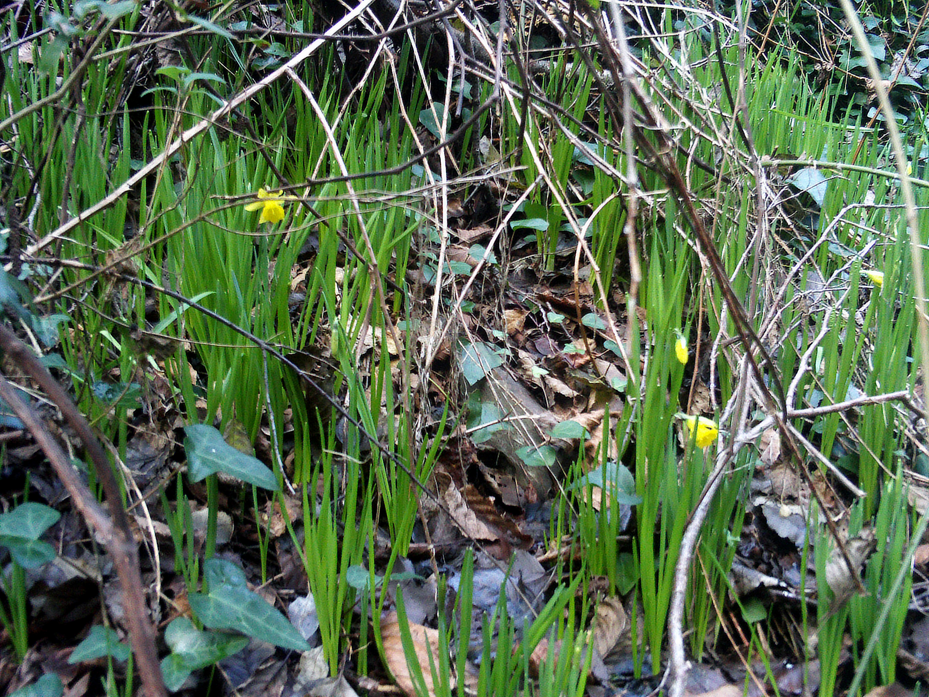 Narcissus munozii-garmendiae Habitat in "Garganta de San Lorenzo" on Sierra Madrona, Spain